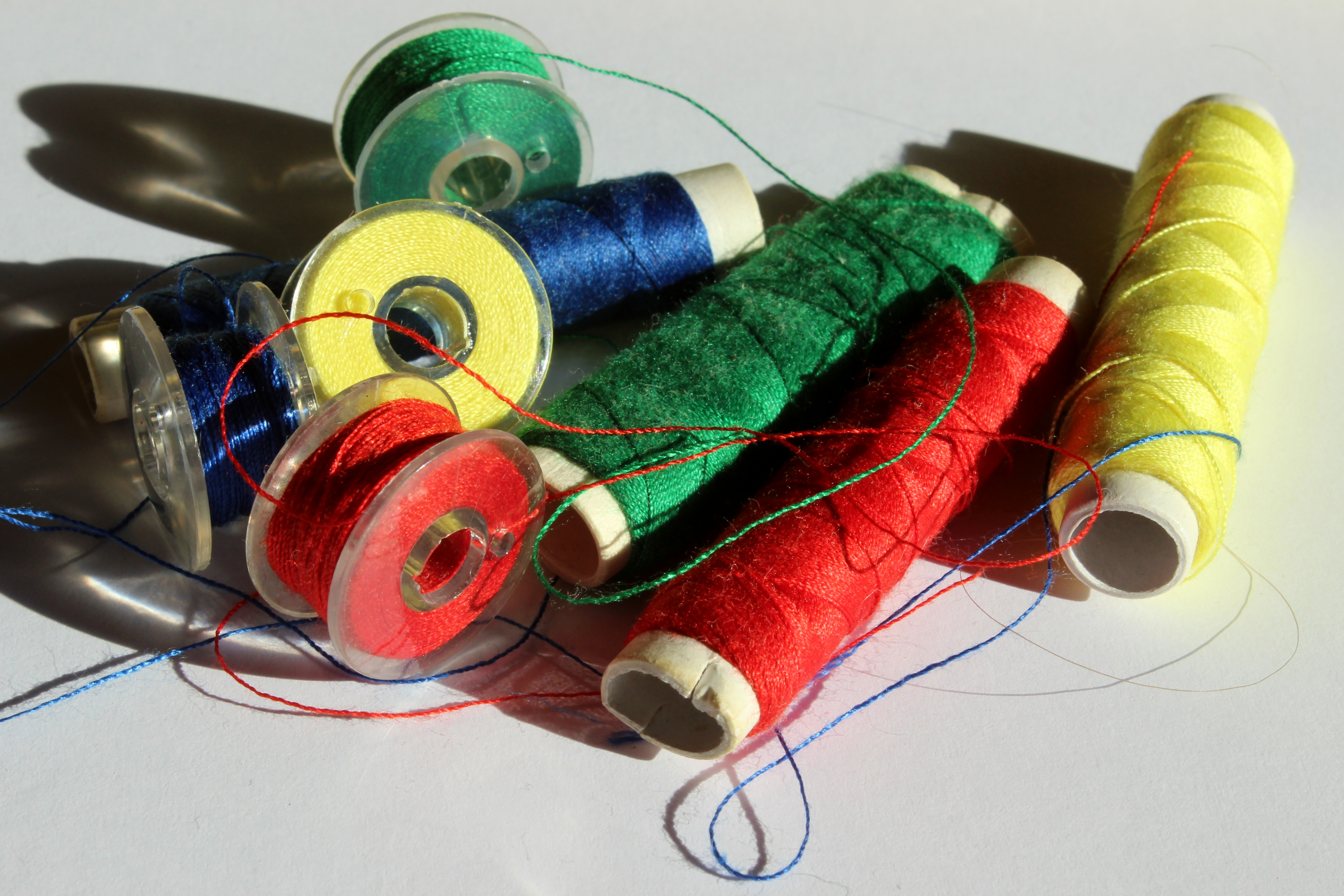 Sewing yarns on sewing bobbins in primary colours.